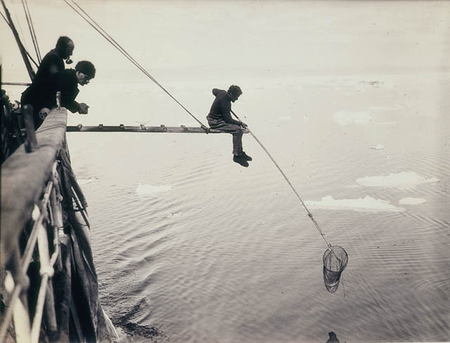 Format: Silver gelatin photoprint Notes: Oceanography : marine biological programme and other zoological and botanical activities : photographs from the first Australasian Antarctic Expedition, 1911-1914 Frank Hurley visited the Antarctic six times between 1911 and 1932. For more information and pictures, visit Discover Collections: Hurley's Antarctica on the State Library of NSW's website: From the collections of the Mitchell Library, State Library of New South Wales Information about photographic collections of the State Library of New South Wales .au/search/SimpleSearch.aspx Persistent url: [1]